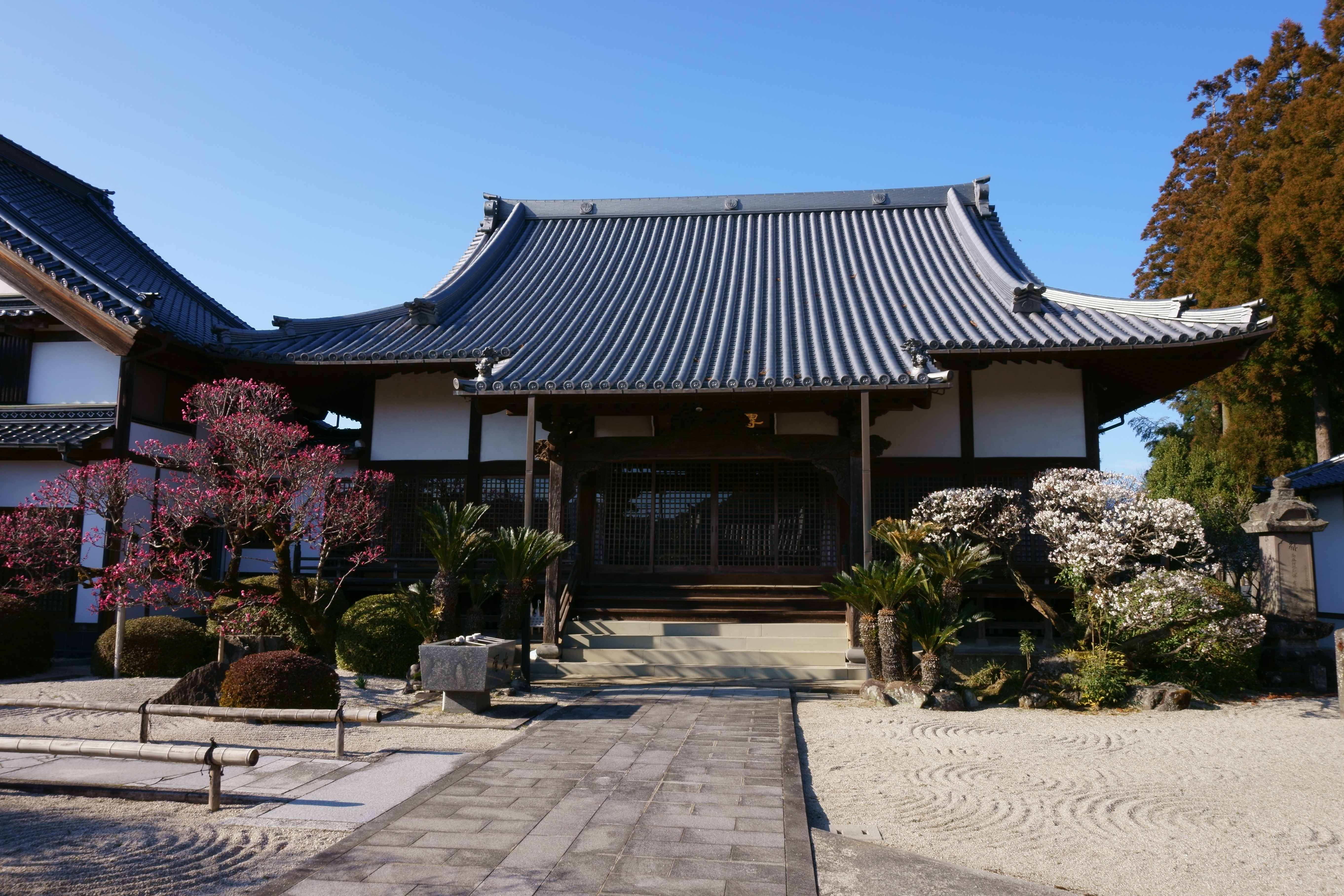 The main hall of Senshō-ji Temple in Taku, Saga prefecture.